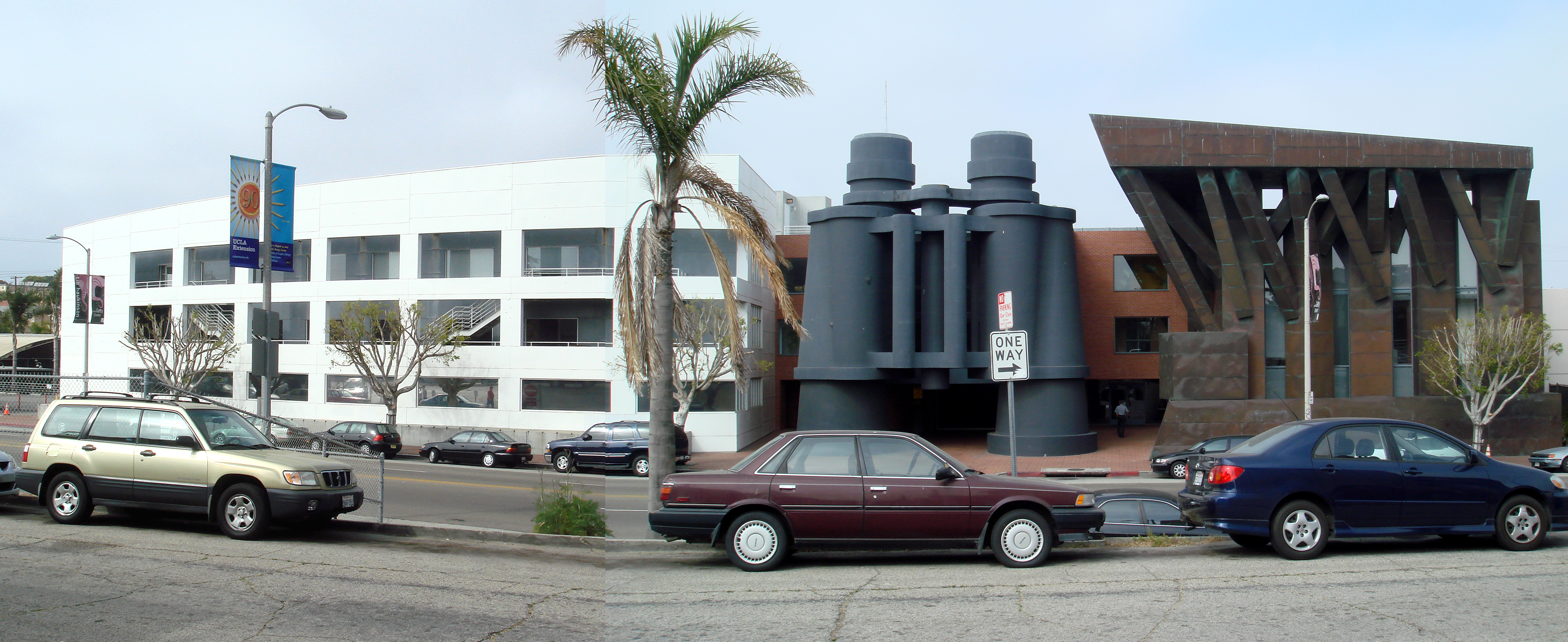 The Chiat/Day Building (1991), by Frank Gehry, in Venice, California. This more direct-facing, wider photo assembled with two separate photos.